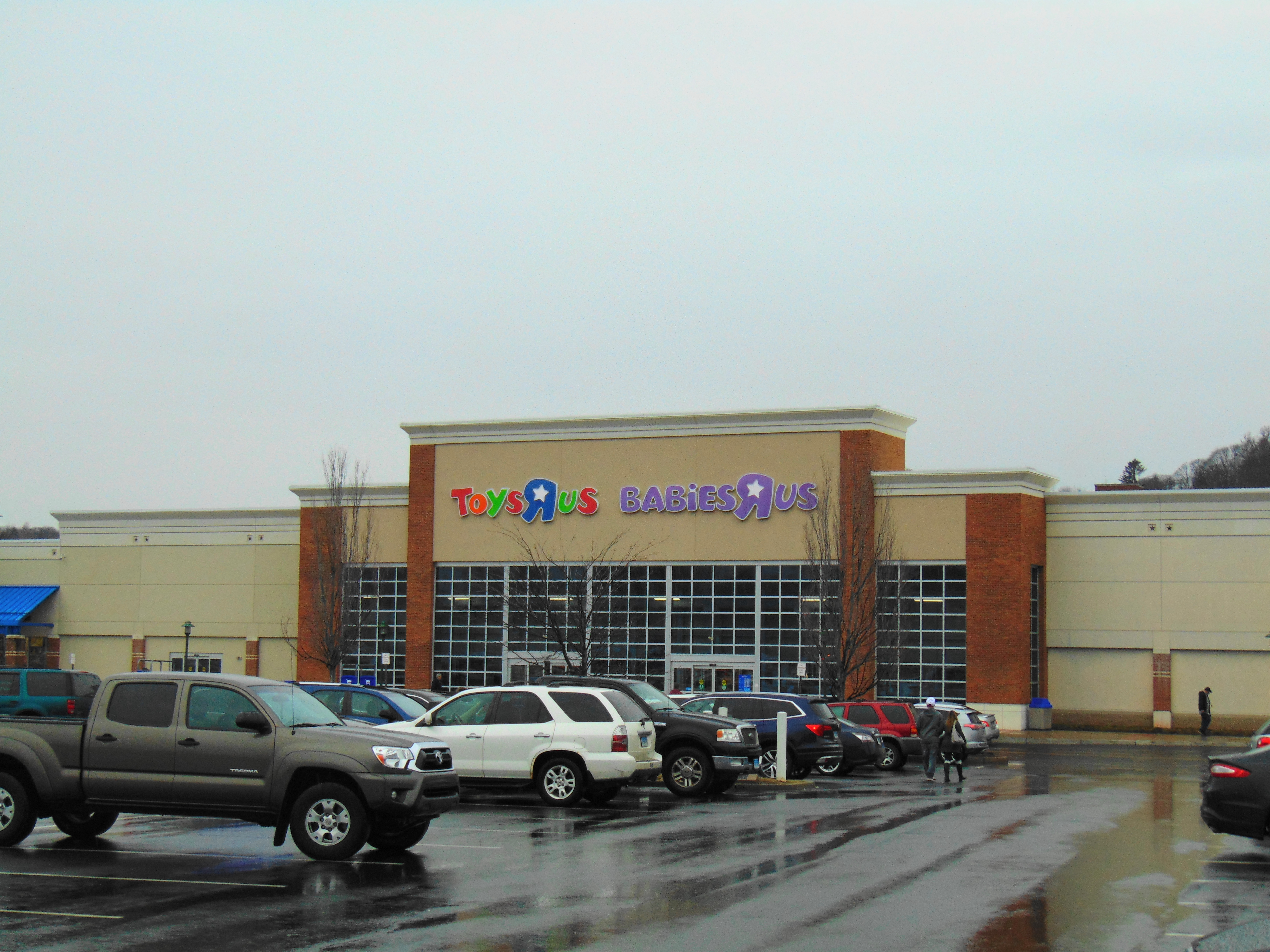 The Toys "R" Us in Waterbury, Connecticut. It was one of the locations to close back in January, but was removed.